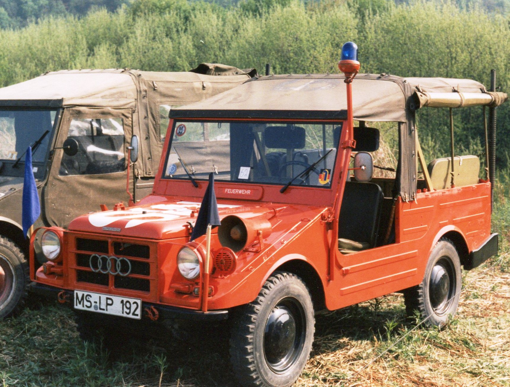 DKW Munga cross country car pic up, long version, multi purpose vehicle with 4-wheel drive, Fire-Department